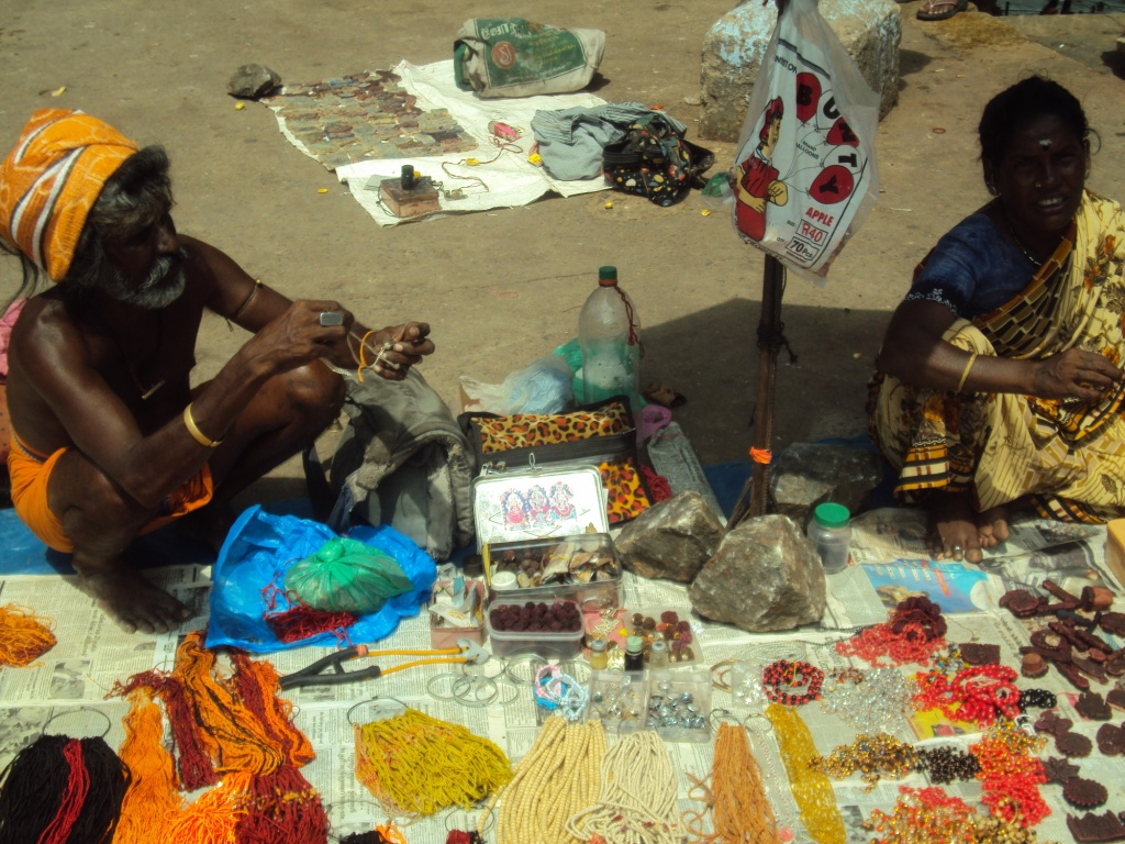 Pettai clan of the Narikorava tribe selling pasimani necklaces at the Papanasam Temple.